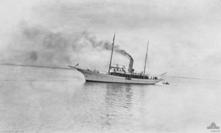 Photo of HMAS Franklin which served as such between 1915 and 1922.